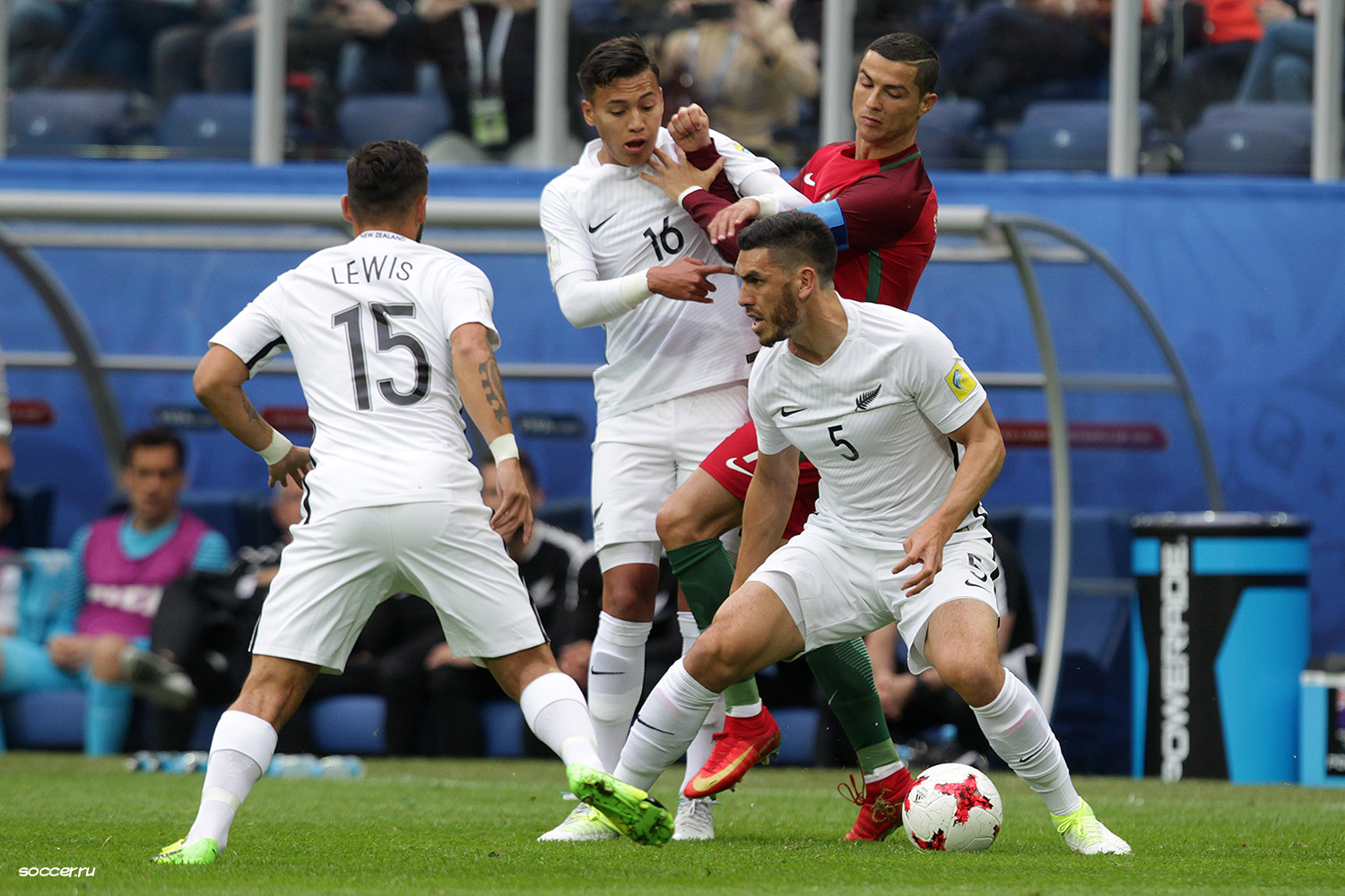 New Zealand VS. Portugal 0 - 4, 24 June 2017